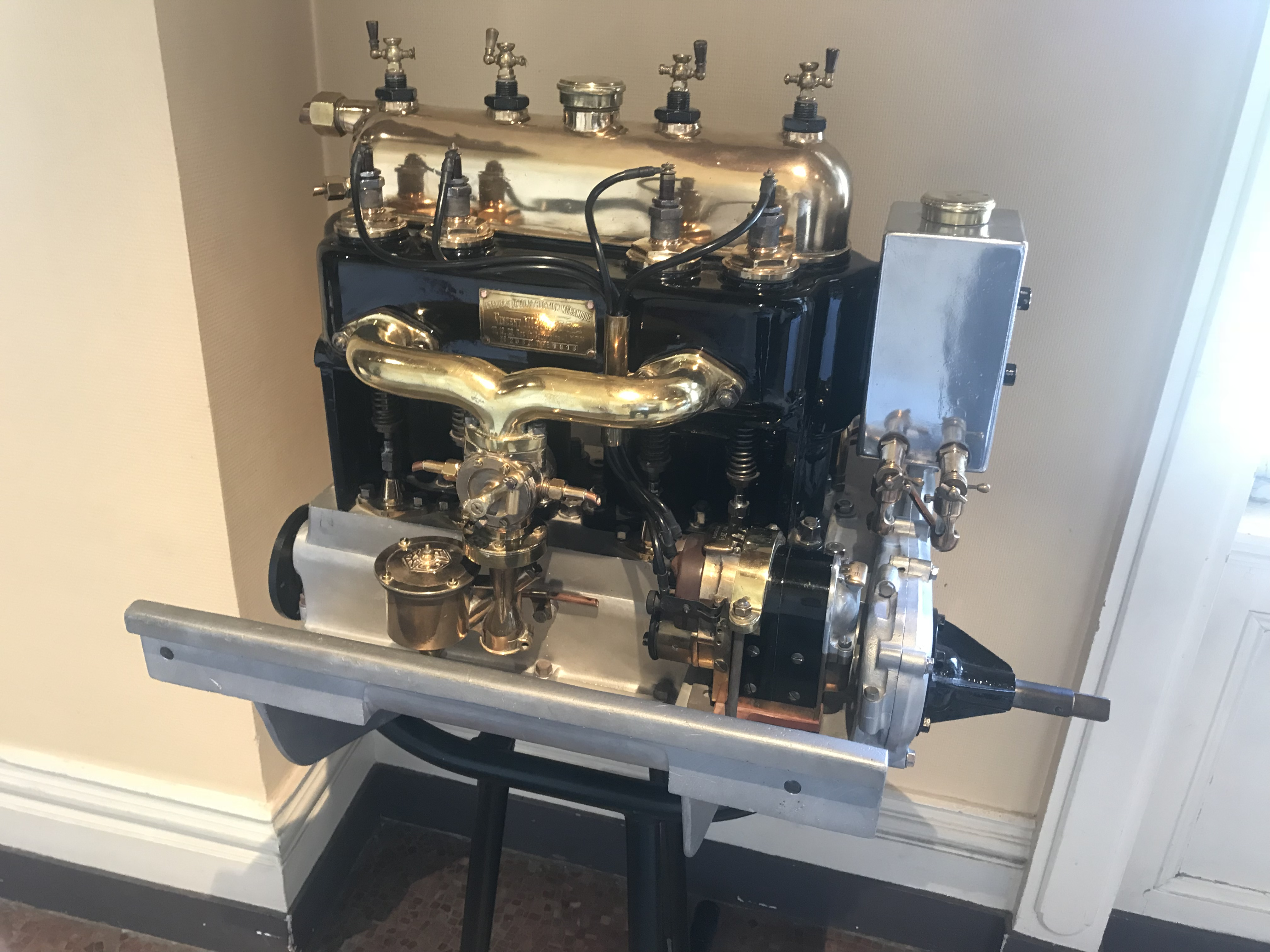 Mieusset four cylinder engine 1916 at the Musée Henri Malartre